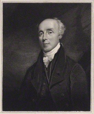 Portrait of Francis Wrangham (1769–1842), English churchman.